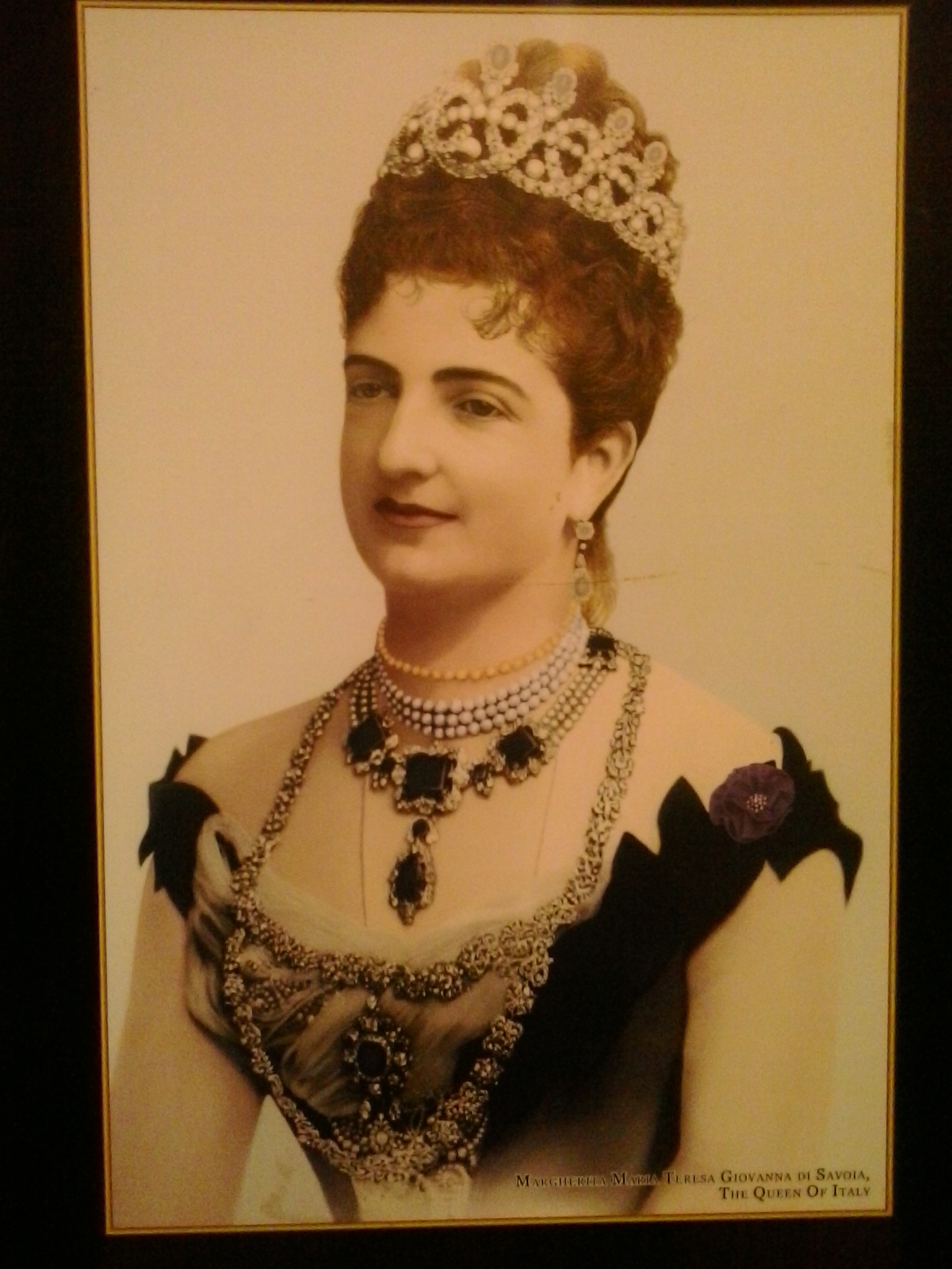 It is a portrait of Margherita Maria Teresa Giovanna. She was the queen consort of the kingdom of Italy during the reign (1878–1900) of her husband, Umberto I. The picture was taken at Coal Heritage Museum, Margherita.